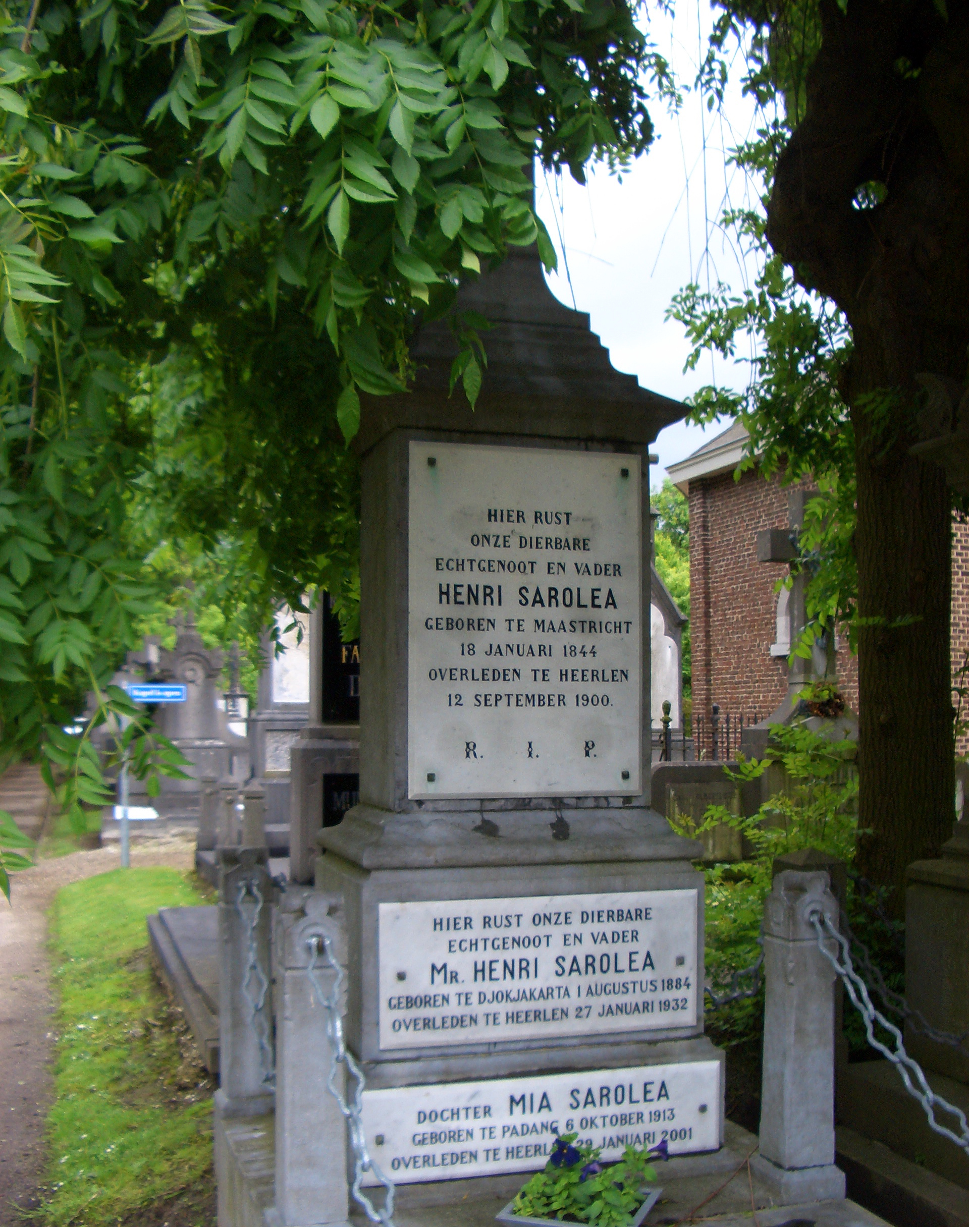 This picture of the grave of Henri Sarolea was taken by me, Maarten van Wesel, in heerlen